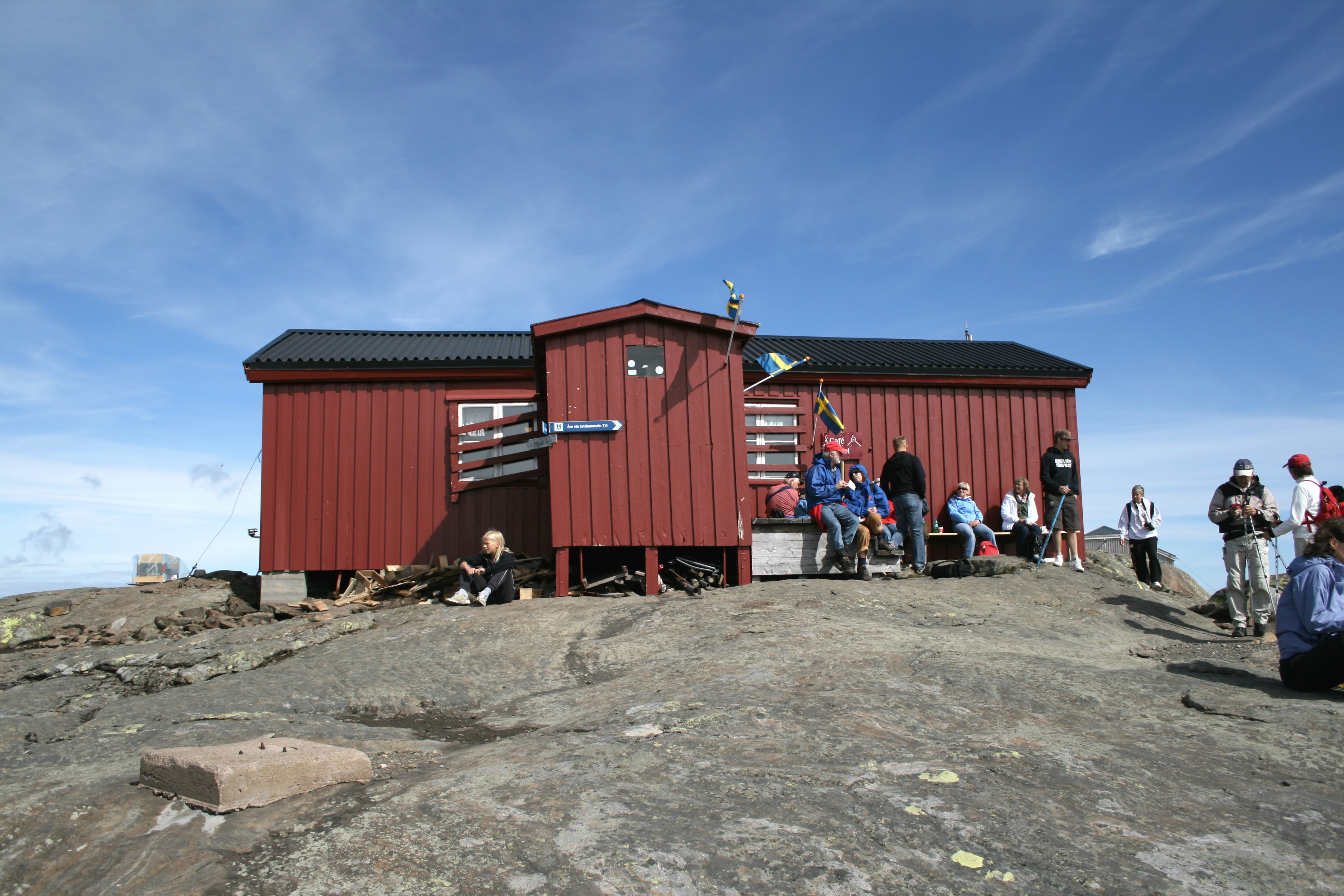 The cabin at the top of Åreskutan